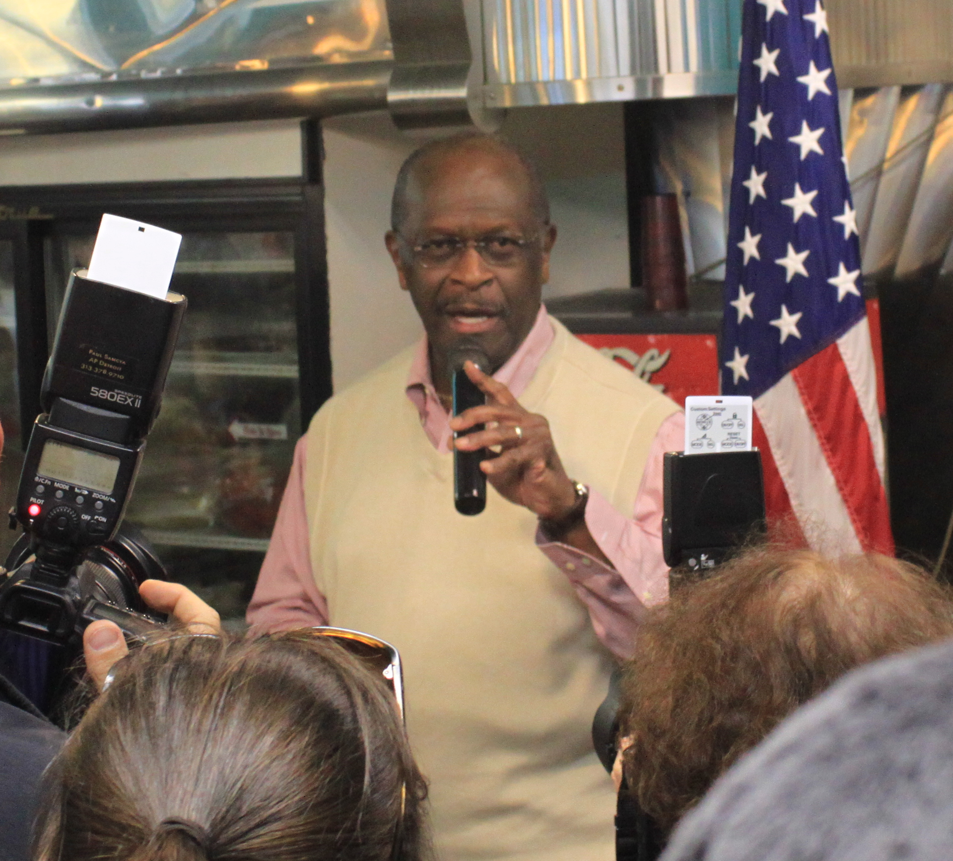 Presidential candidate Herman Cain at a campaign event at the Big Sky Diner, 1340 Ecorse Road, Ypsilanti, Michigan